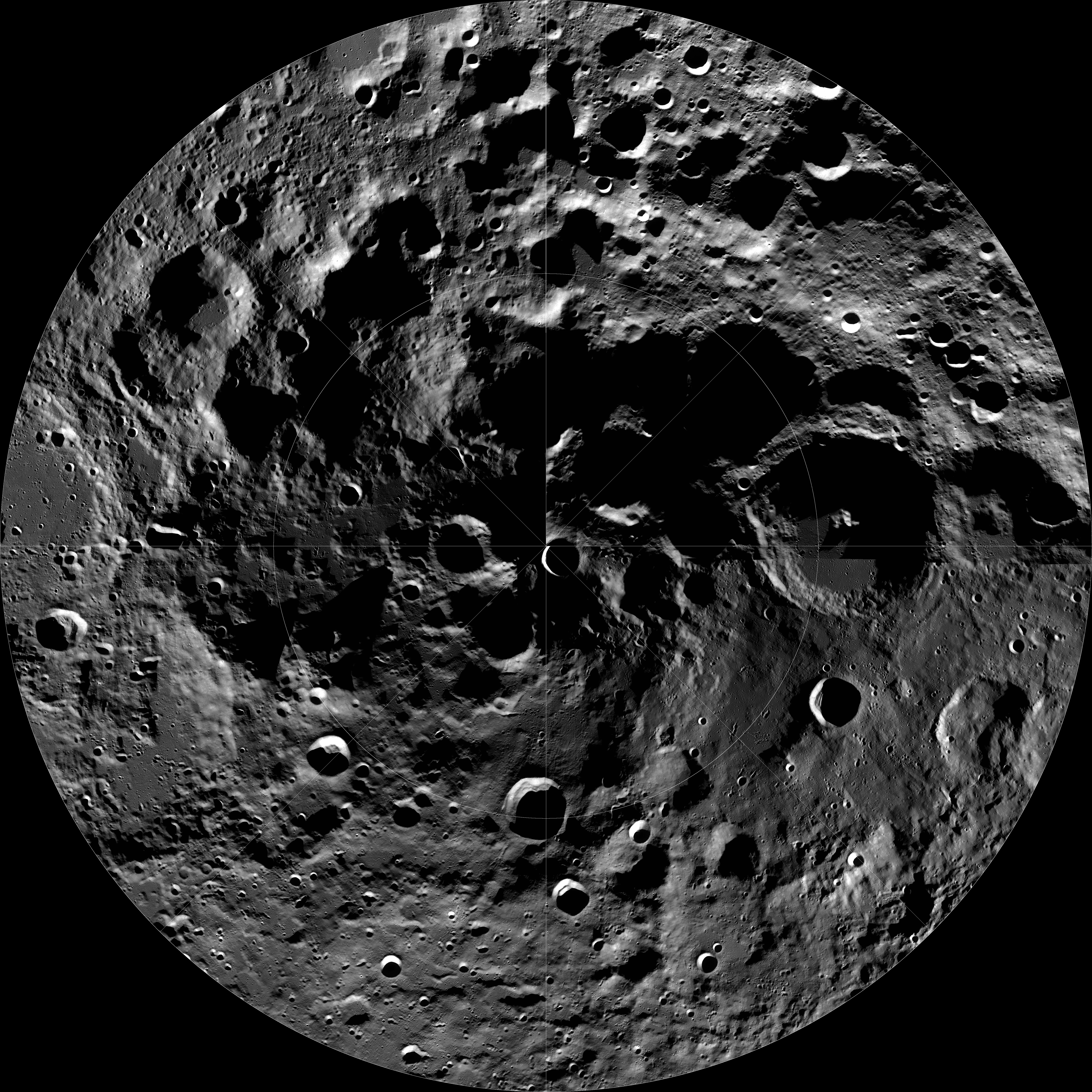 LROC Wide Angle Camera (WAC) mosaic of the lunar South Pole region, width ~600 km (372 miles). The lunar South Pole is one of the most compelling places in the entire Solar System. This region of the Moon is important for both lunar scientists and engineers planning future human exploration. The towering massifs of the South Pole-Aitken Basin can be accessed, and these massifs contain impact melt that will allow scientists to unambiguously determine the age of this huge basin. Furthermore, permanently shadowed craters may harbor reservoirs of ices and other volatile compounds that could serve as a tremendously valuable resource for future explorers. Additionally, these volatile deposits could contain a priceless record of water composition dating back to the beginning of our Solar System, an incomparable dataset for astrobiology investigations. Finally, a few mountain peaks near the pole (just west and east of the rim Shackleton crater) are illuminated for extended periods of time, providing the near-constant solar power that would be required for the economical operation of a permanent lunar outpost.